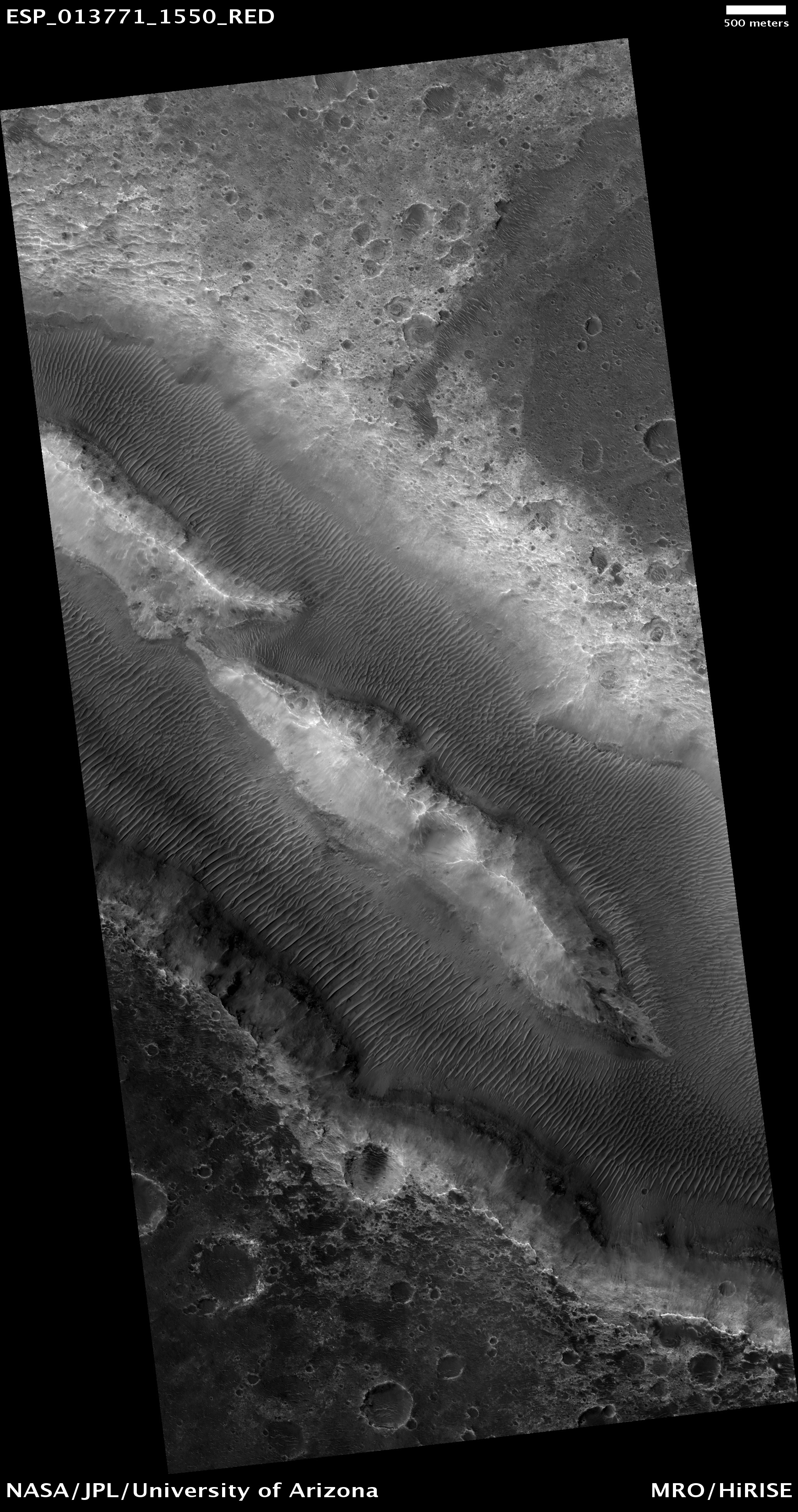 Her Desher Vallis, as seen by HiRISE. Location is 24.7 S and 311.8 E.